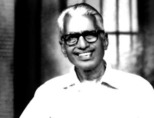 సుద్దాల హన్మంతు